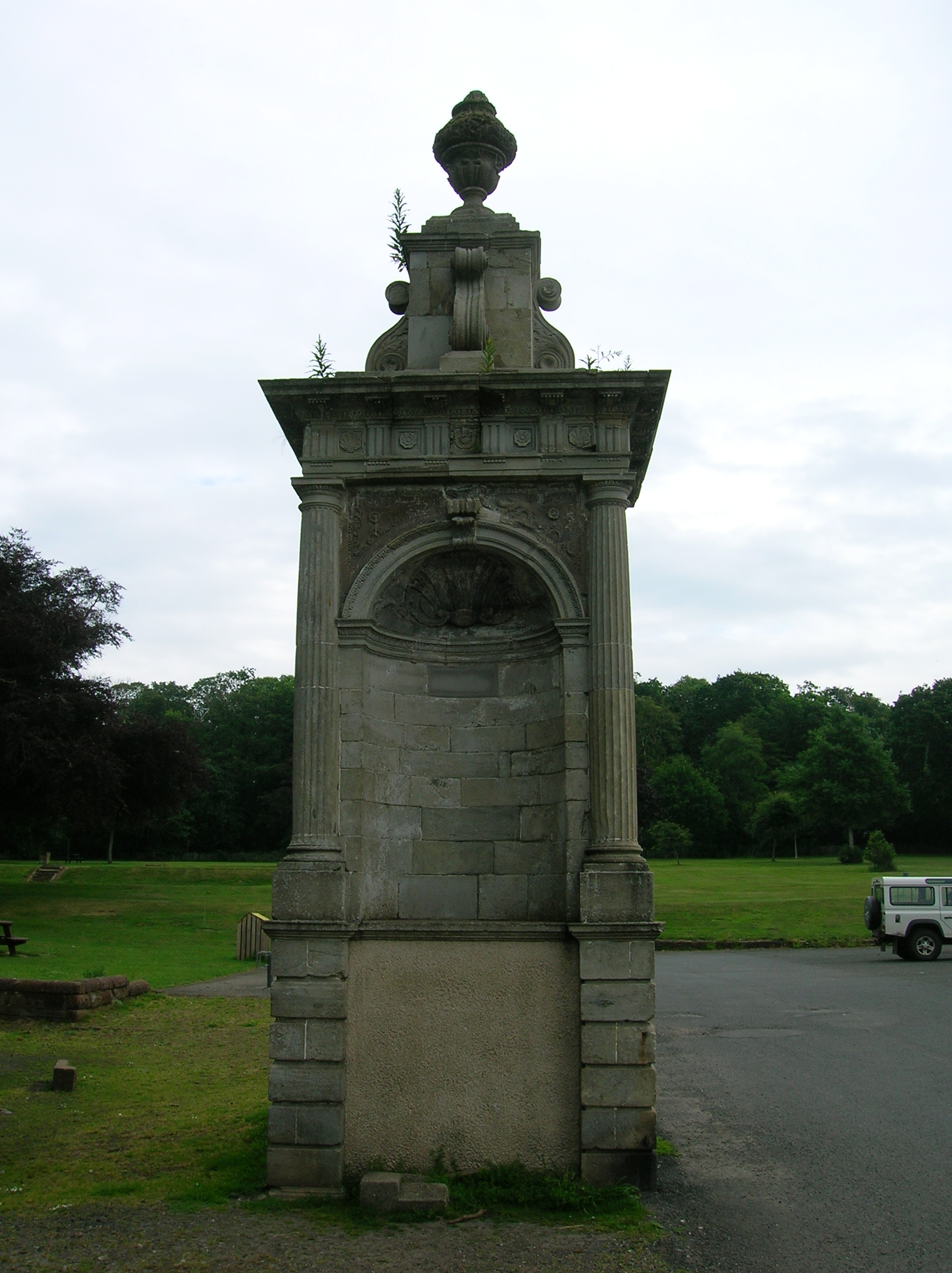 Pier with alcove at Fullarton House site, South Ayrshire, Scotland